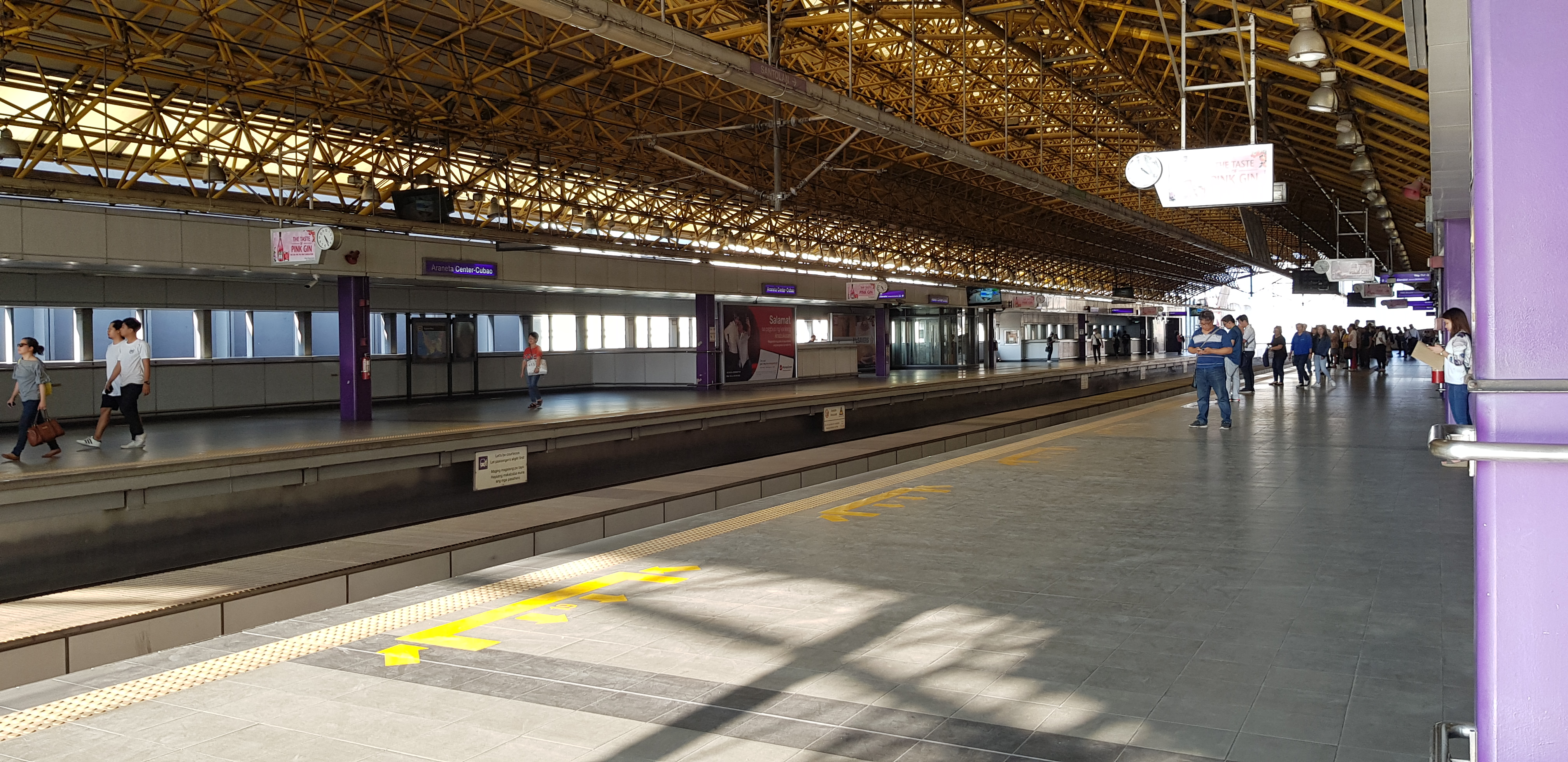 Line 2 Araneta Center-Cubao Station Platform